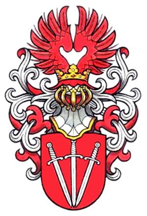 Coat of arms Carl-Alexander von Volborth